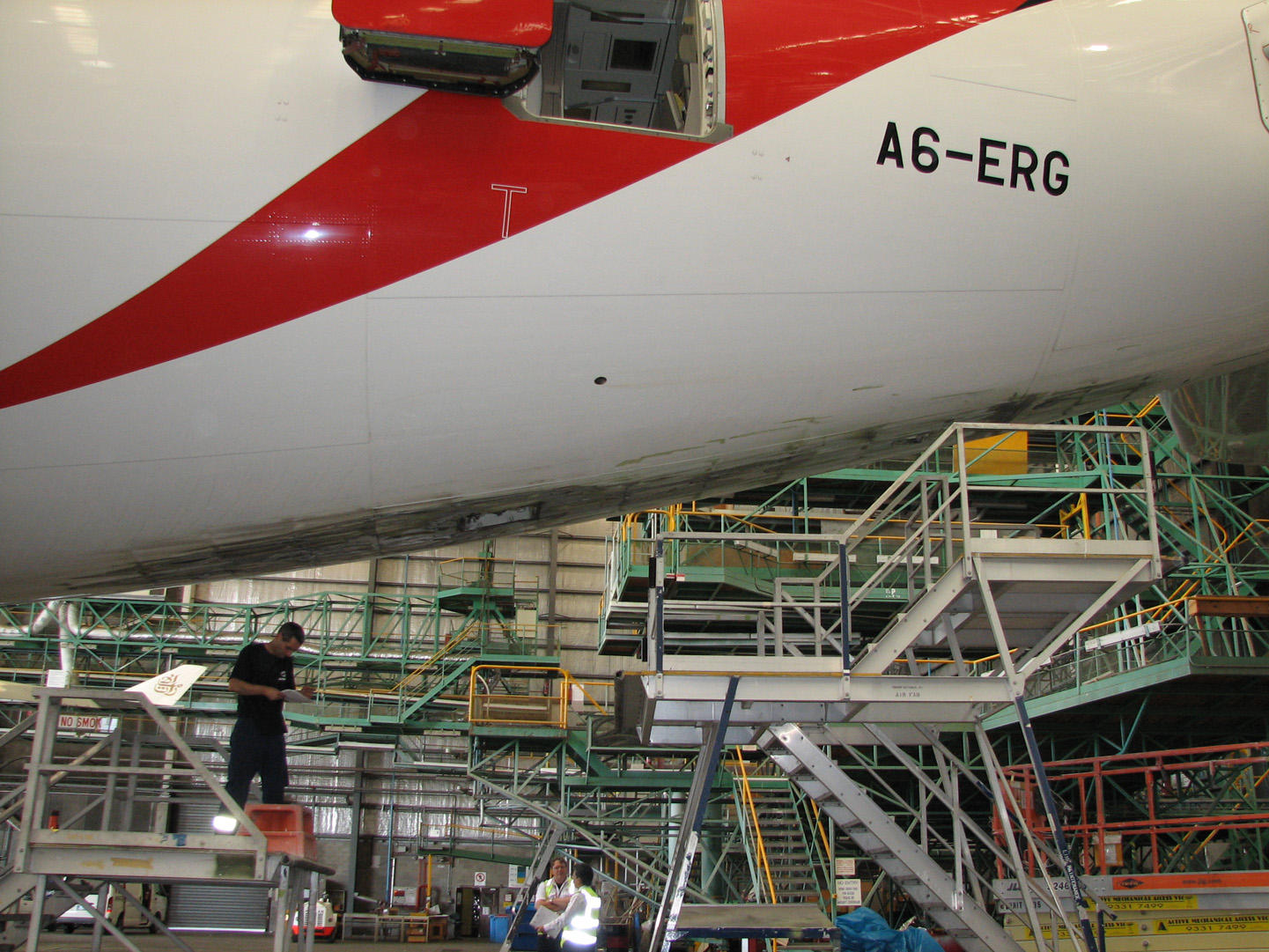 Emirates Flight 407